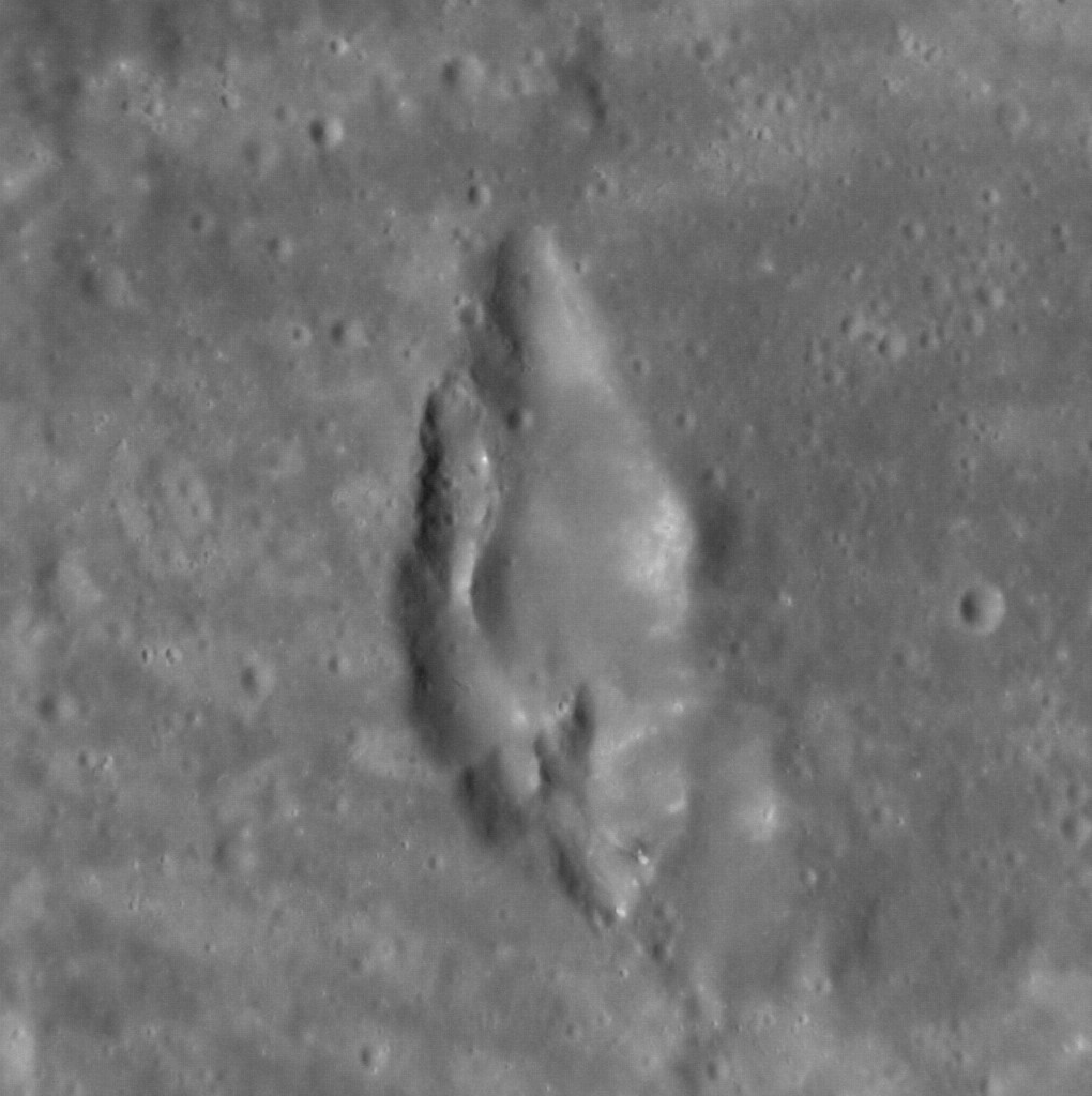 Depression in Kipling crater on Mercury. MESSENGER Narrow Angle Camera image. North is in upper left. Width is about 53 km. Emission Angle: 18.2 Incidence Angle: 49.8 Latitude: -19.2 Longitude: 71.4 Phase Angle: 31.6